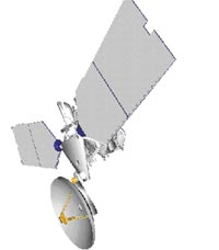 Artist's rendering of a Mars Reconnaissance Orbiter.